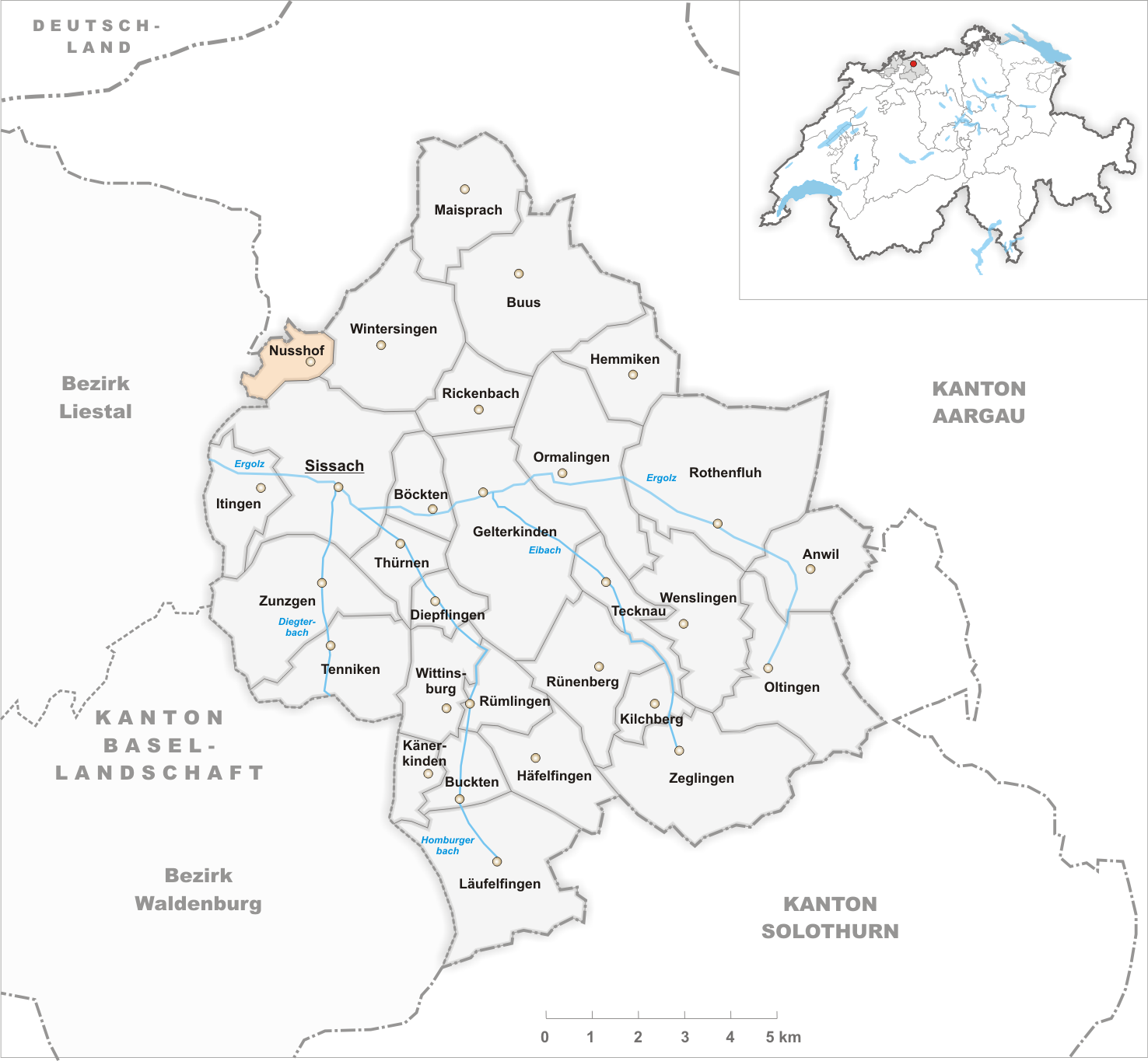 Municipality Nusshof